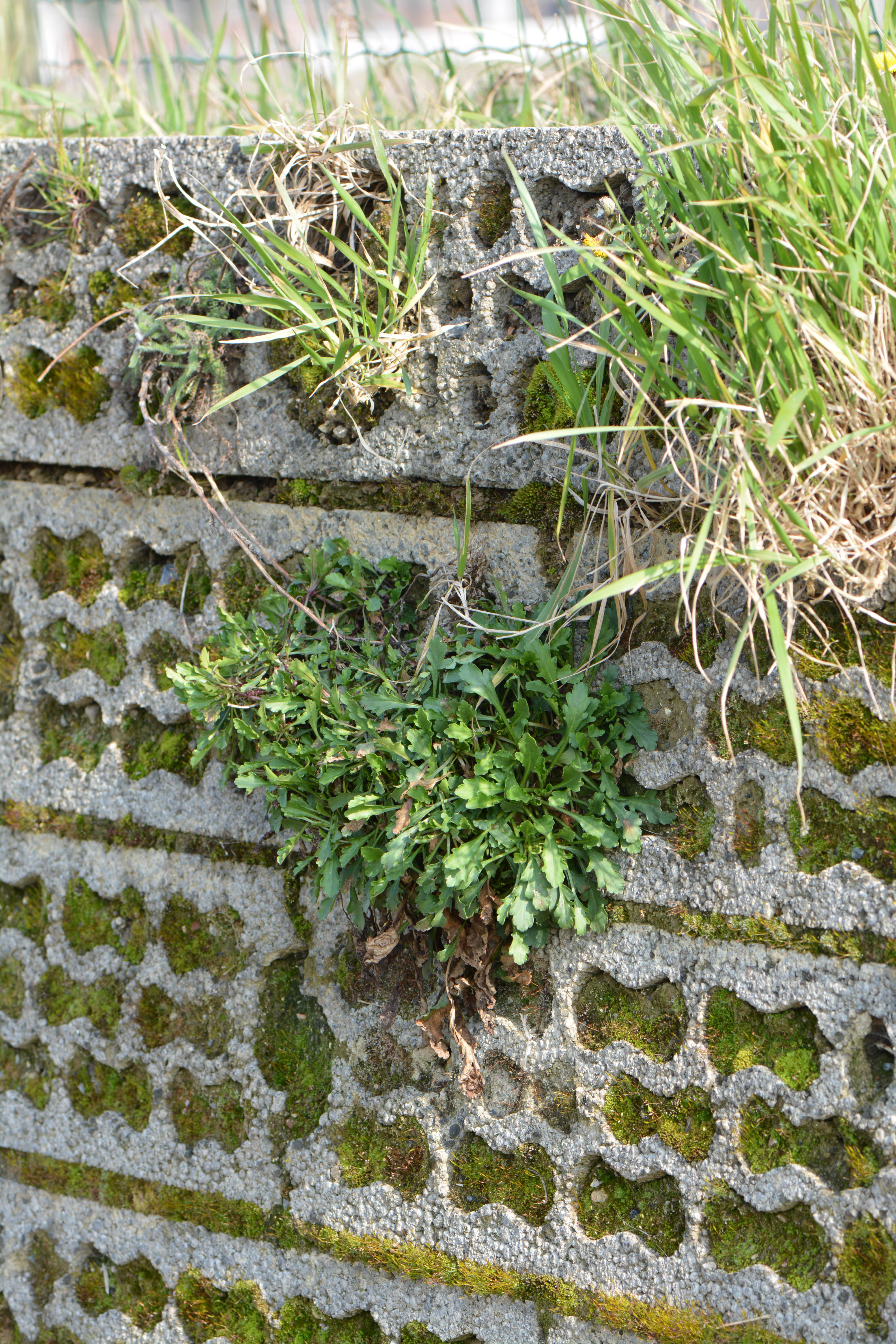 On a part of the fortifications of Vauban Citadel in Lille (north of France), during a restoration of counterguard, an experiment for the biodiversity has been conducted. It must allow some plants and animals species (invertebrates, bats) living on the site, and allow the public to observe them. Here, the Architect of the buildings of France authorized an experimental construction : a few meters of gabions filled with small hard limestone stones and earth, and (over 100 meter in length) he authorized (the long of a small pathway) a little wall of special blocks, assembled with clay and filled with compact poor soil (made from clay and lime).Interest : natural spores and seeds of wild plants, adapted to this environment comes with wind, insects, birds, etc. There is self-selection of species. Many insects and invertebrates will be able to enjoy the microhabitats that occur naturally in the wall, that should not require maintenance. A self-adaptive living communities in this microclimate is expected (hot and dry conditions were very windy).